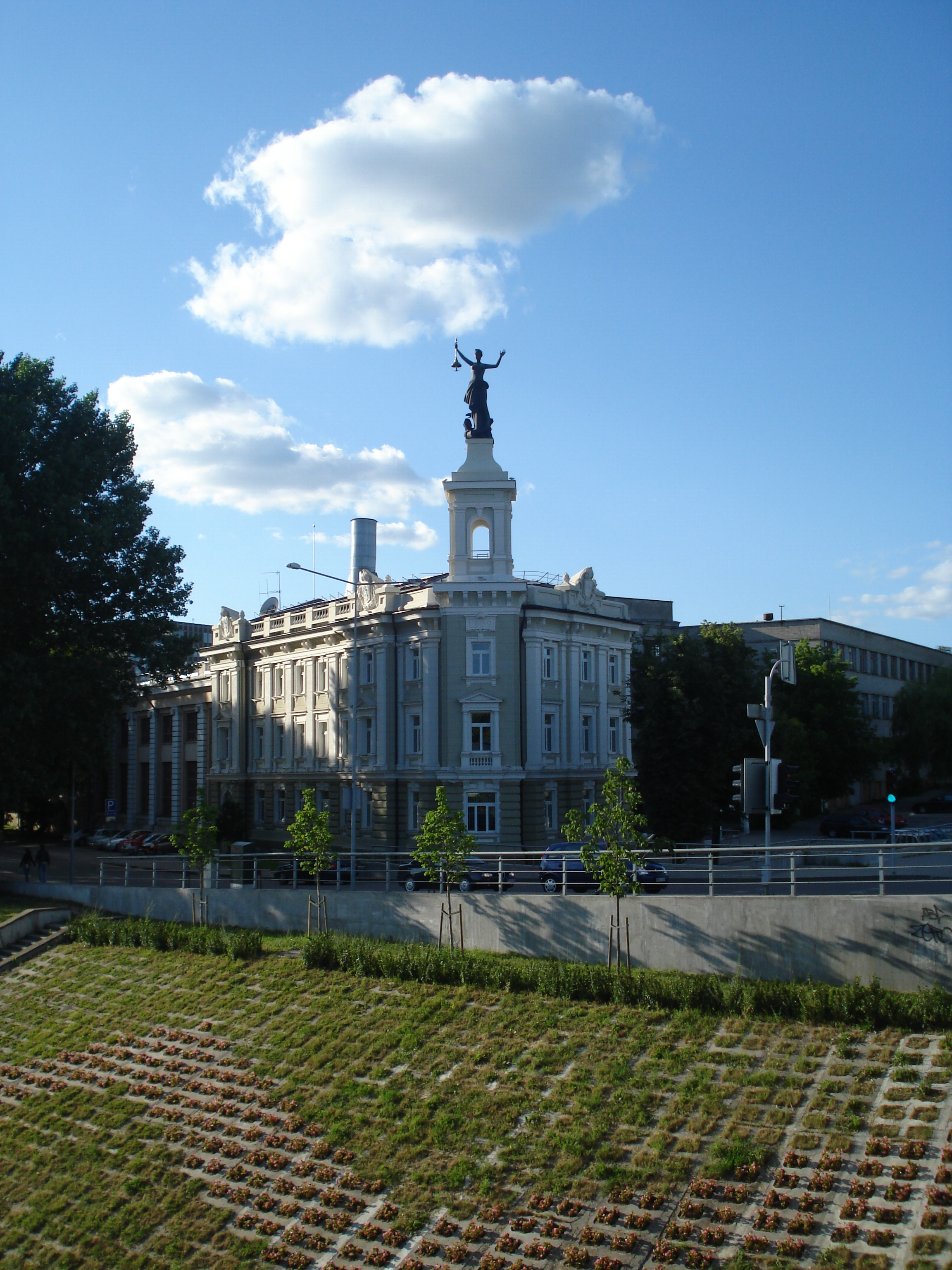 Museum of Energetics in Vilnius. Energetikos muziejus (former Elektrownia). Sculpture "Elektra" by Bolesław Bałzukiewicz (1906). 1957 destroyed, 1994 reconstructed (sculptor Petras Mazuras).